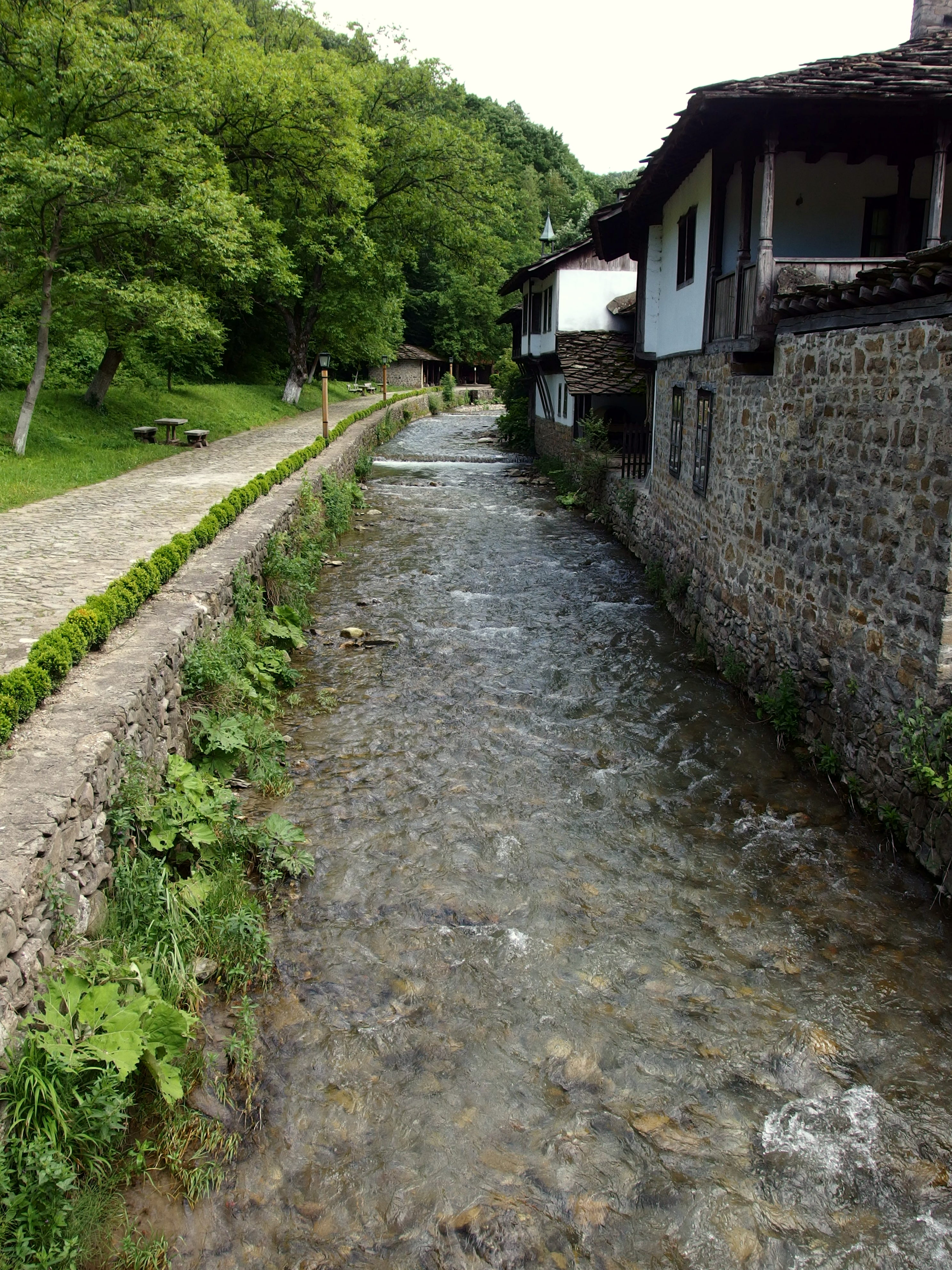 20140622 in Etar.